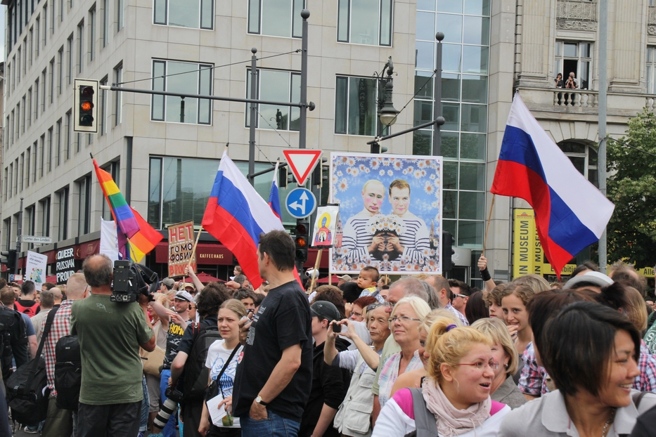 Berlin CSD 2012